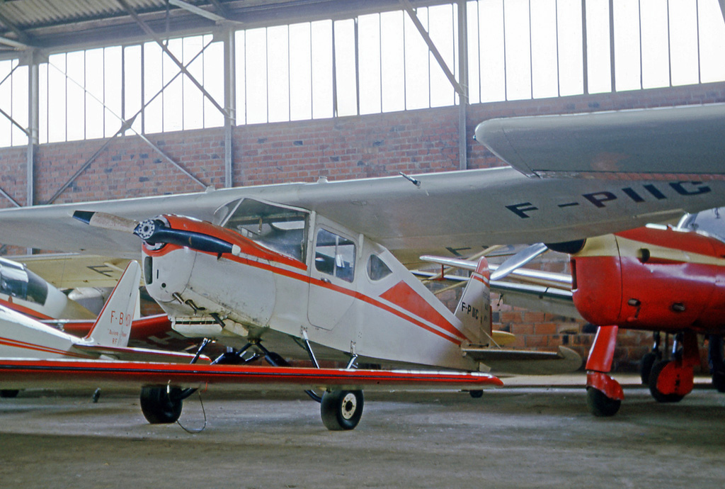 SECAT S-5 F-PIIC at Toussus-le-Noble airfield near Paris in 1965